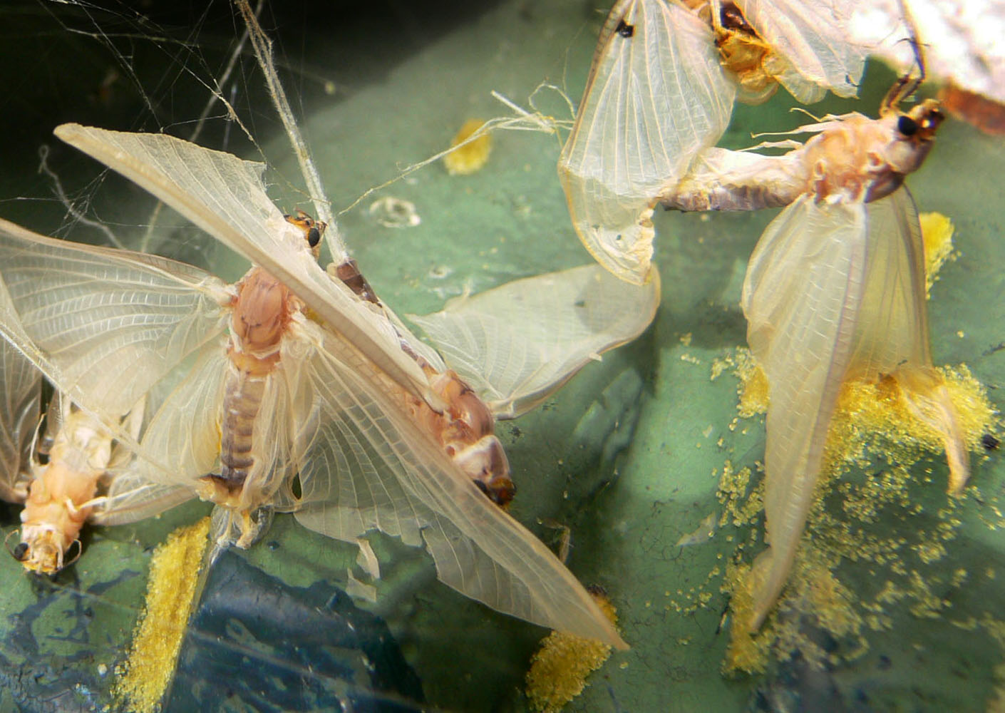 Lighting and architectural elements of the upper part of the Briare aqueduct (deck riveted steel and stone, the stone base has Designed by Gustave Eiffel), which passes above the Loire (France, Region Centre, Department of Loiret) perpendiculairment to this one. Example of impact of the light pollution "on the Loire River, which is often described as the last wild river in France. More lights are near the center and the axis of the river Loire (the bridge that crosses it at right angles), more lights attract insects at night just to emerge from the water (NB: Some of these insects (midges, caddisfly s, stonefly s including Ephemeroptera) are considered "bioindicators" indicating a good quality of water, and are rapidly declining in France since the early twentieth century). On this bridge, the further away to the right or left banks of the Loire, under the lights attract insects (which shows that the quality of canal water is bad, and that insects are only from Loire). The amount of cobwebs, the number of spiders and the number of bodies are clues to the amount of trapped insects and, since every morning wasps come - sometimes hundreds - "steal" the spiders on their canvas, part of dead insects they were killed and stored in a sheath of silk in the night. Because of the heat lamps and their intensity, these spiders have a food unusually prolific, and they are unusually numerous. This phenomenon seems to be what ecologists call a "ecological trap" in particular due to the phenomenon known as Pollution polarized light (which may explain why, as seen in this photo ephemeris lay their eggs on the painting of the mast lights instead of laying in the water). Bats, fish and shellfish may also be affected by this light.